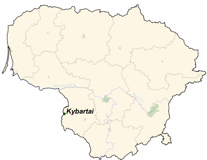 Kybartai on the map of Lithuania